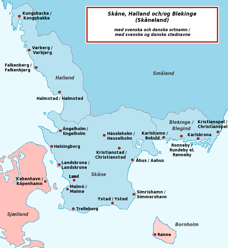 Bilingual Map of Scania, Halland and Blekinge (with swedish and danish placenames)